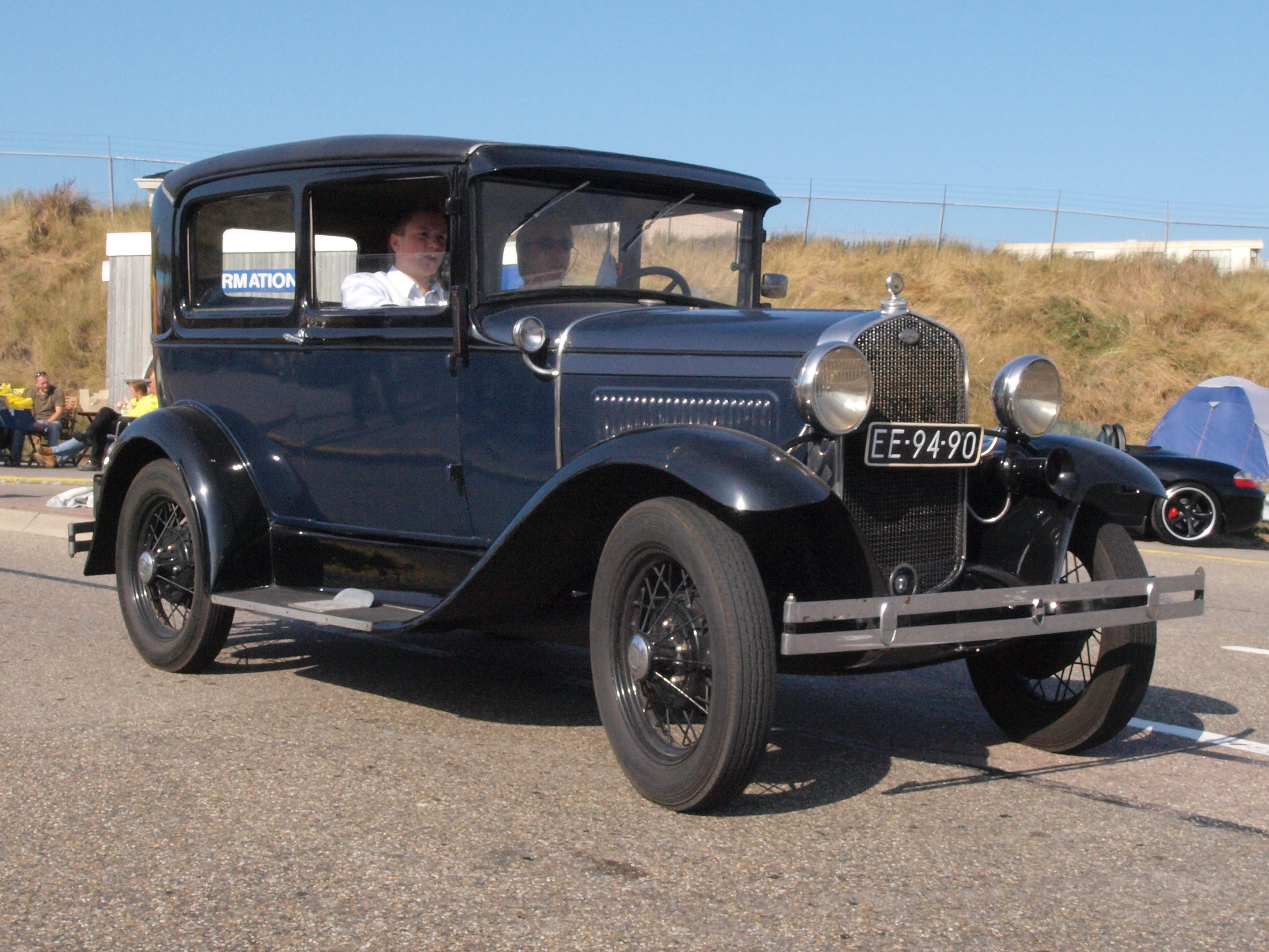 Photographed at the Nationaal Oldtimer Festival Zandvoort 2009, The Netherlands. OLYMPUS DIGITAL CAMERA